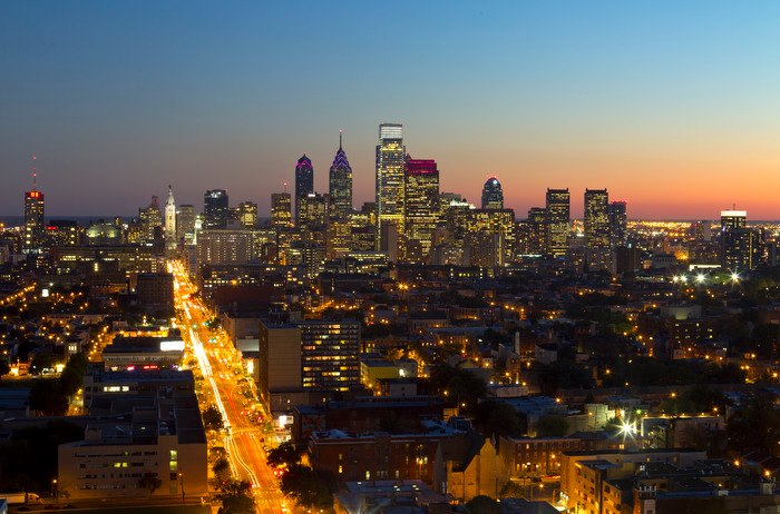 This is an image of the Philadelphia Skyline, looking south, as viewed from Temple University's Morgan Hall on Broad Street.